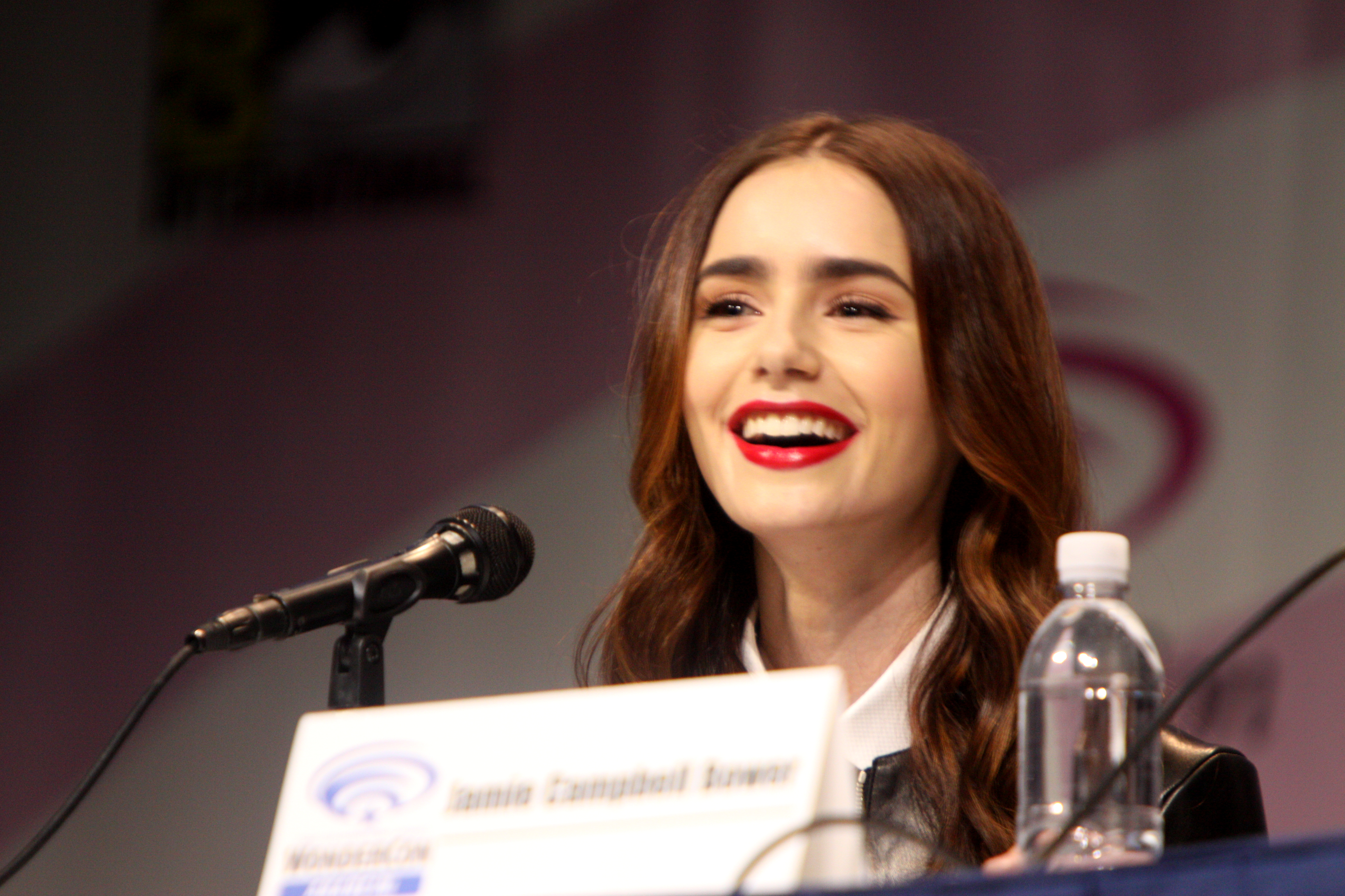 Lily Collins speaking at the 2013 WonderCon at the Anaheim Convention Center in Anaheim, California.